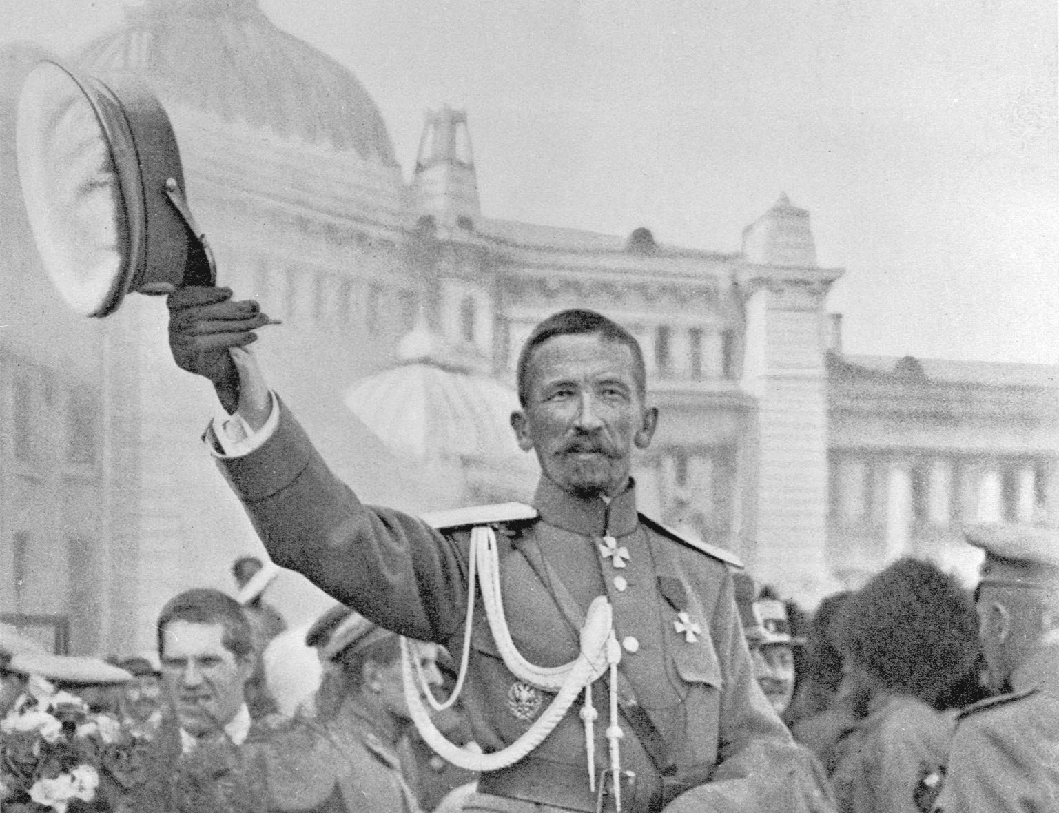 Gen.Lavr Kornilov (d. 1918), CiC of Russian Army. His arrival at State Council. Moscow, August 1917